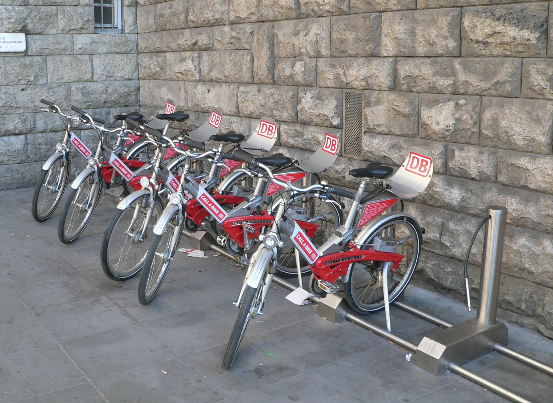 Bicycle rent station "call a bike fix" in Stuttgart, Germany, near main station